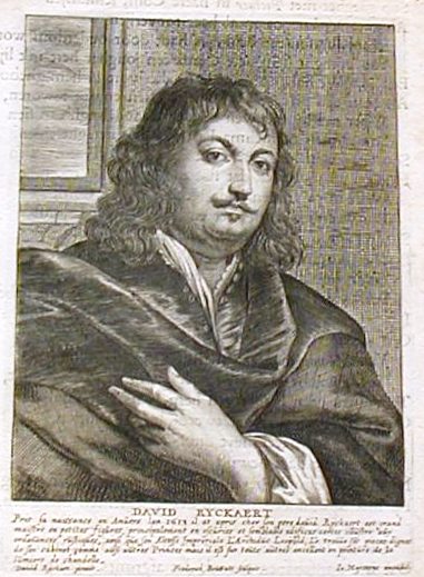 David Rijkaert in Cornelis de Bie's Gulden Cabinet.